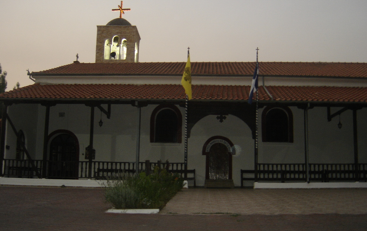 Prophet Elias' Church at Riakia.